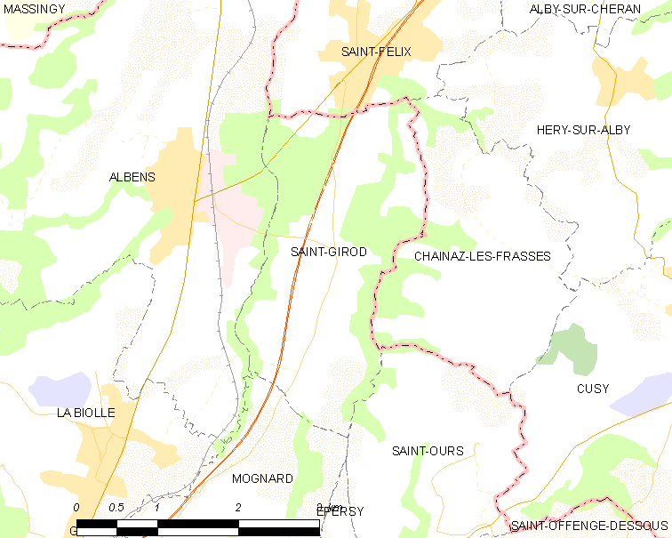 Map of French municipality